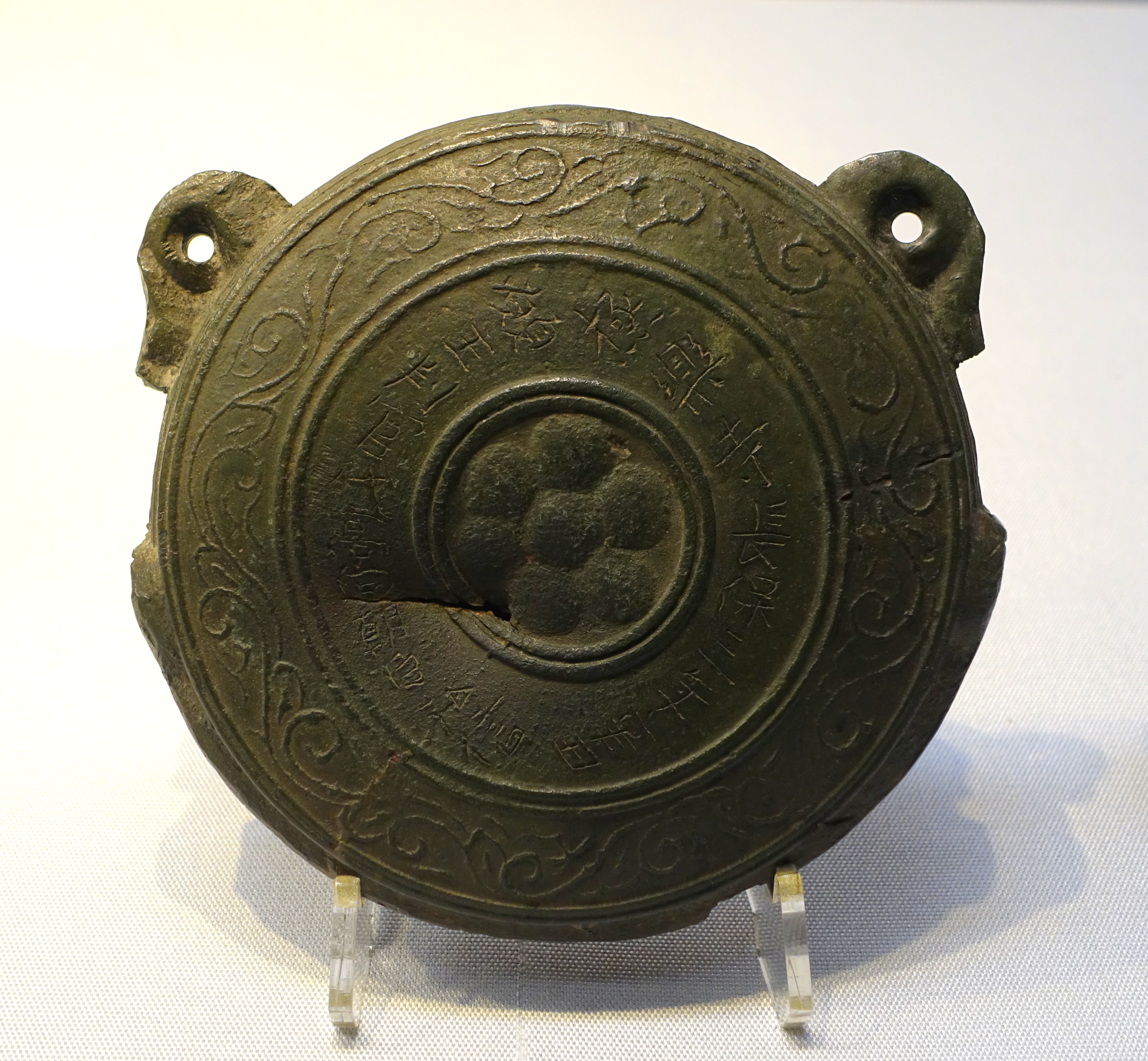 Exhibit in the Tokyo National Museum, Tokyo, Japan. This artwork is old enough so that it is in the public domain.